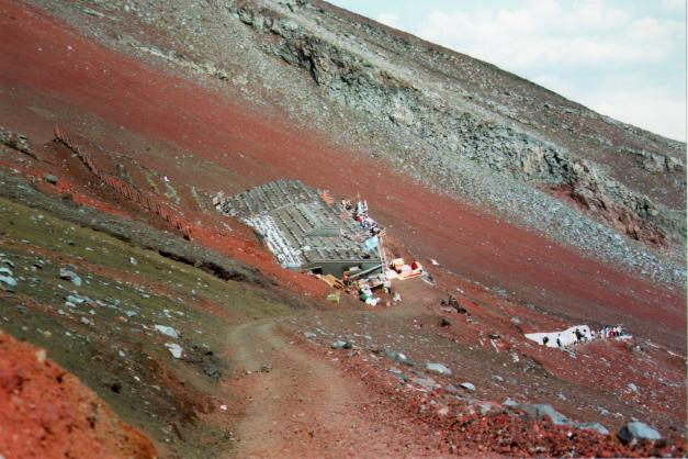 Rest station on the path to the summit of Mt Fuji, where weary travellers can stop to buy hot drinks, food... and oxygen.